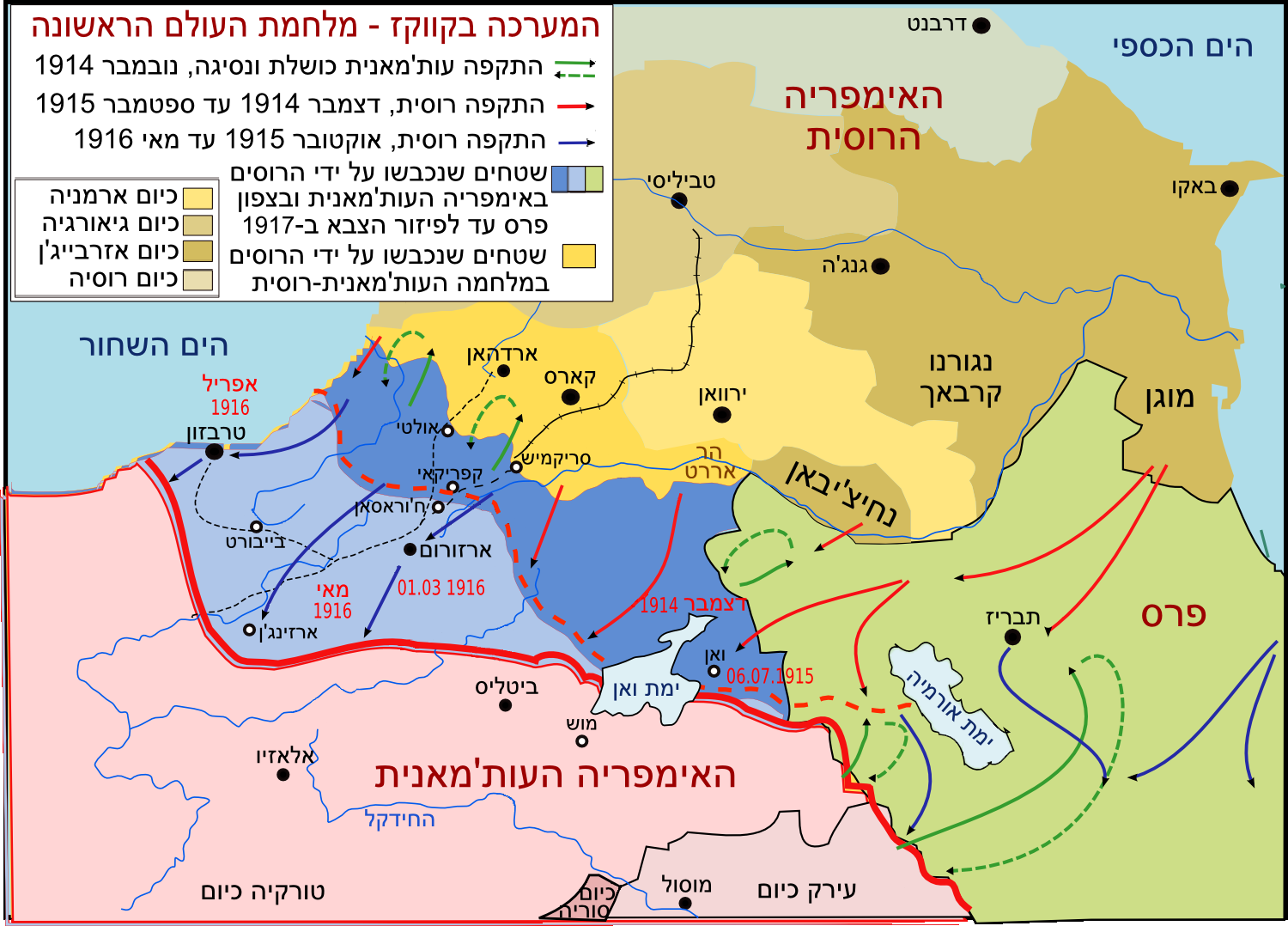 Caucasus Campaing in WW I